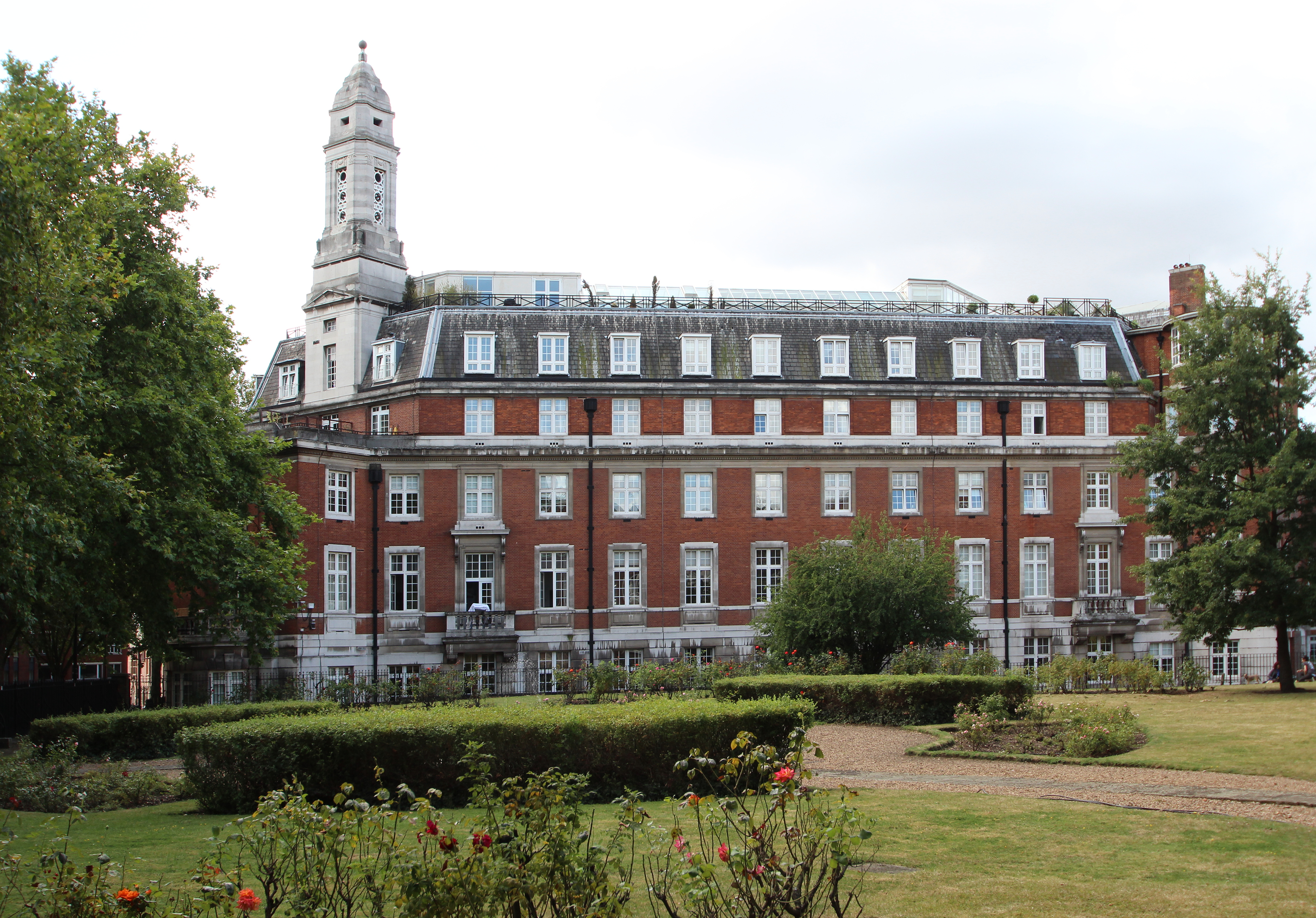 Metropolitan Water Board, on Rosebery Avenue and Arlington Way in the Borough of Finsbury in London, England.